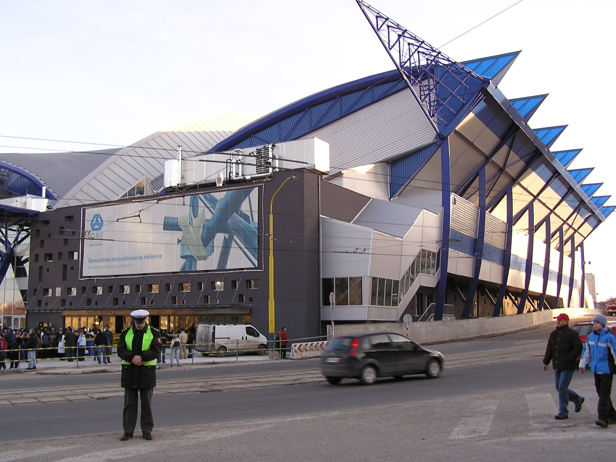 Front view of the Steel Aréna in Košice, Author: Marian Gladis